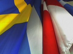 Flags.